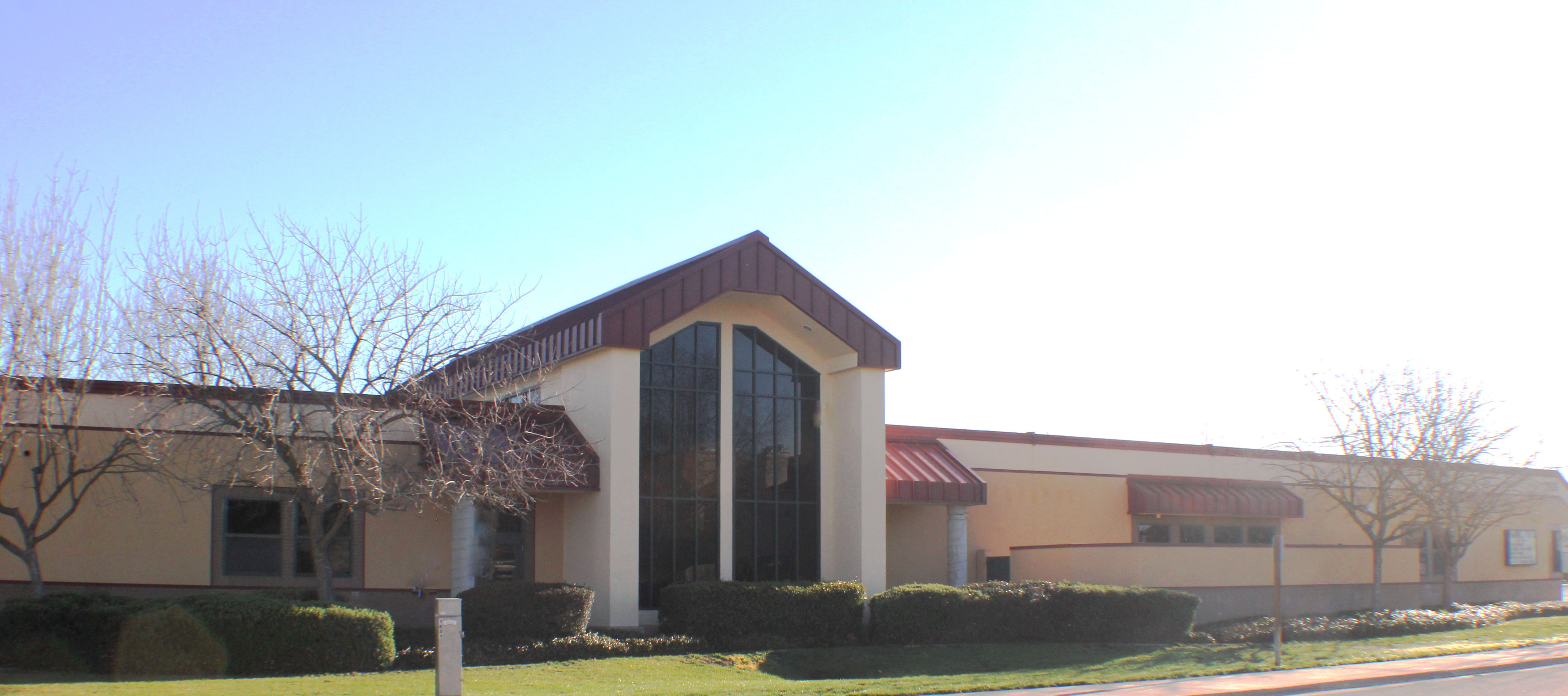 Olive Grove Elementary School - side view.